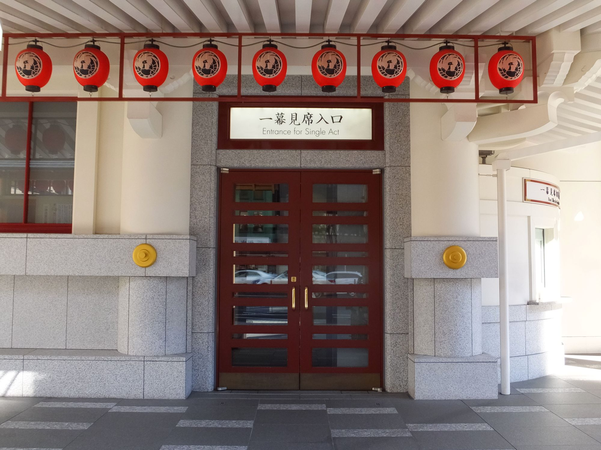 Entrance for Single Act of Kabuki-za theatre